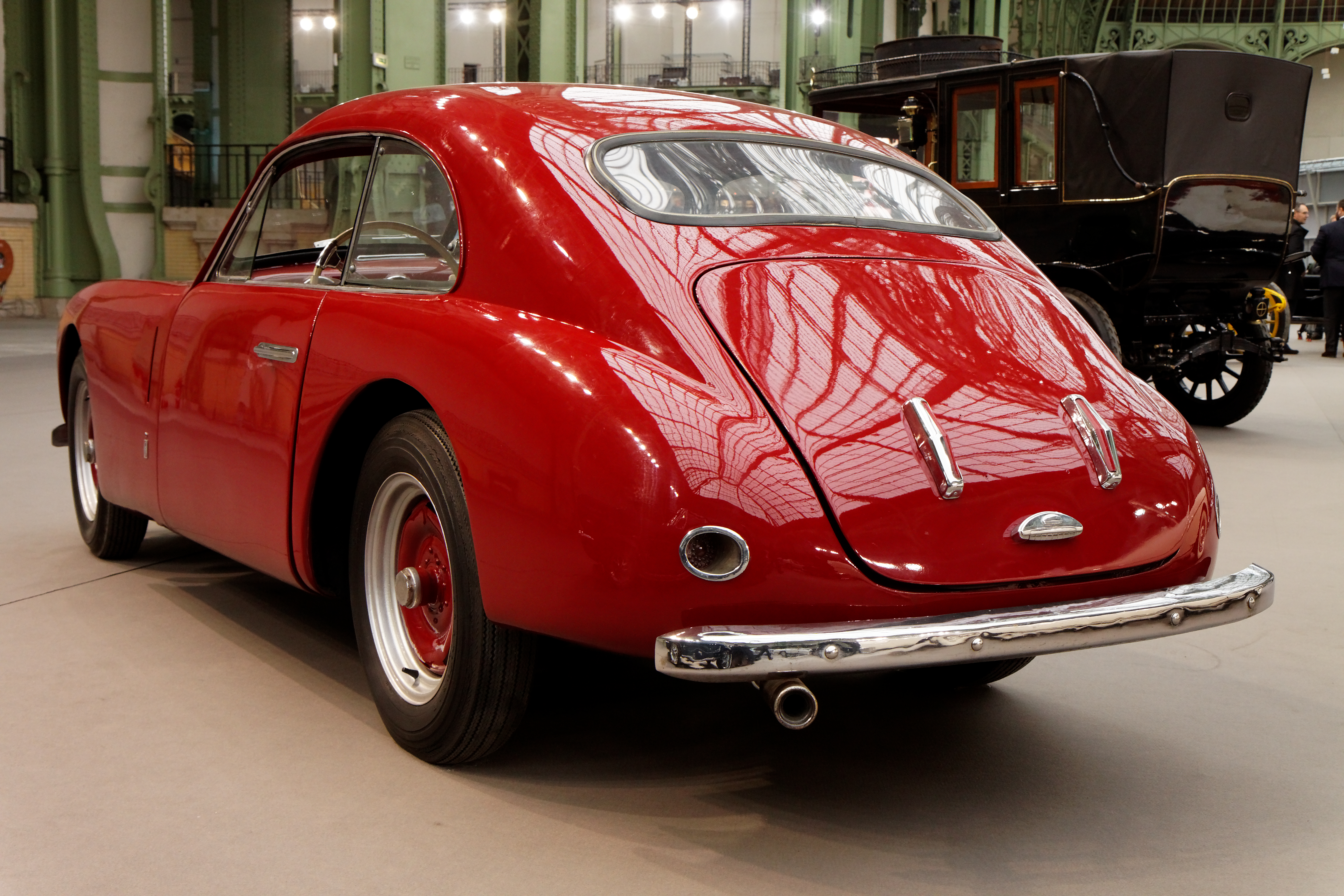 Maserati A6 1500